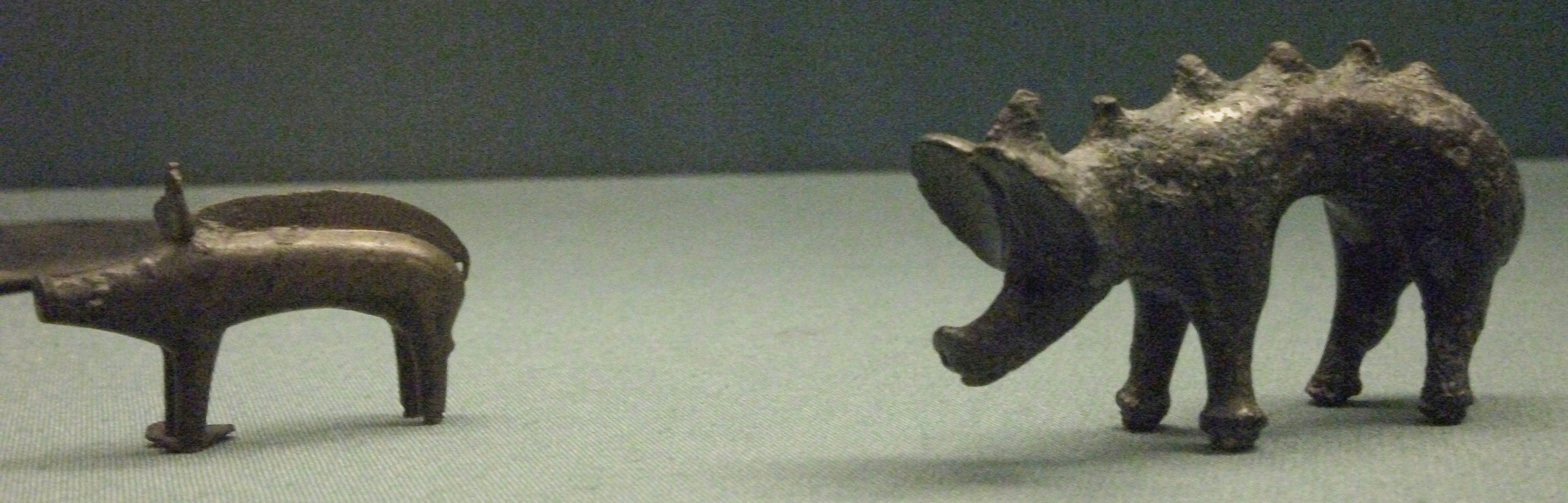 Iron Age figurines of pigs/boars. British Museum; at least the one on the left was probably the crest of a helmet